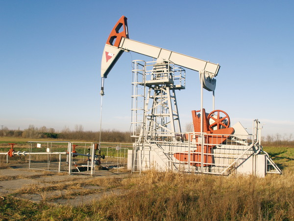 oil pump